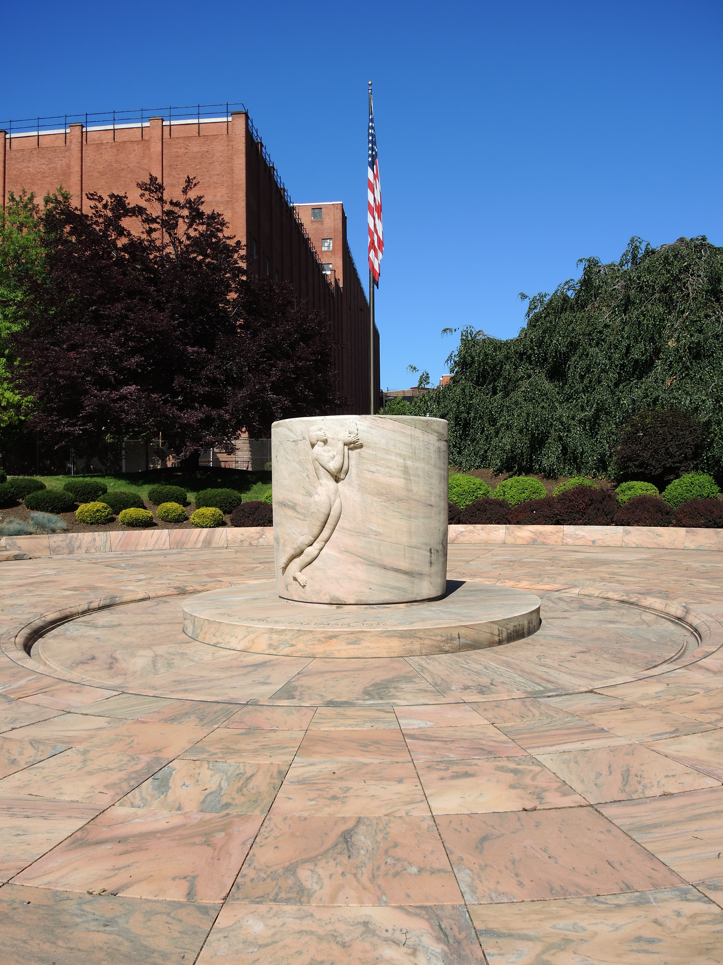 East side of the monument for George Eastman at Kodak Park in Rochester, New York